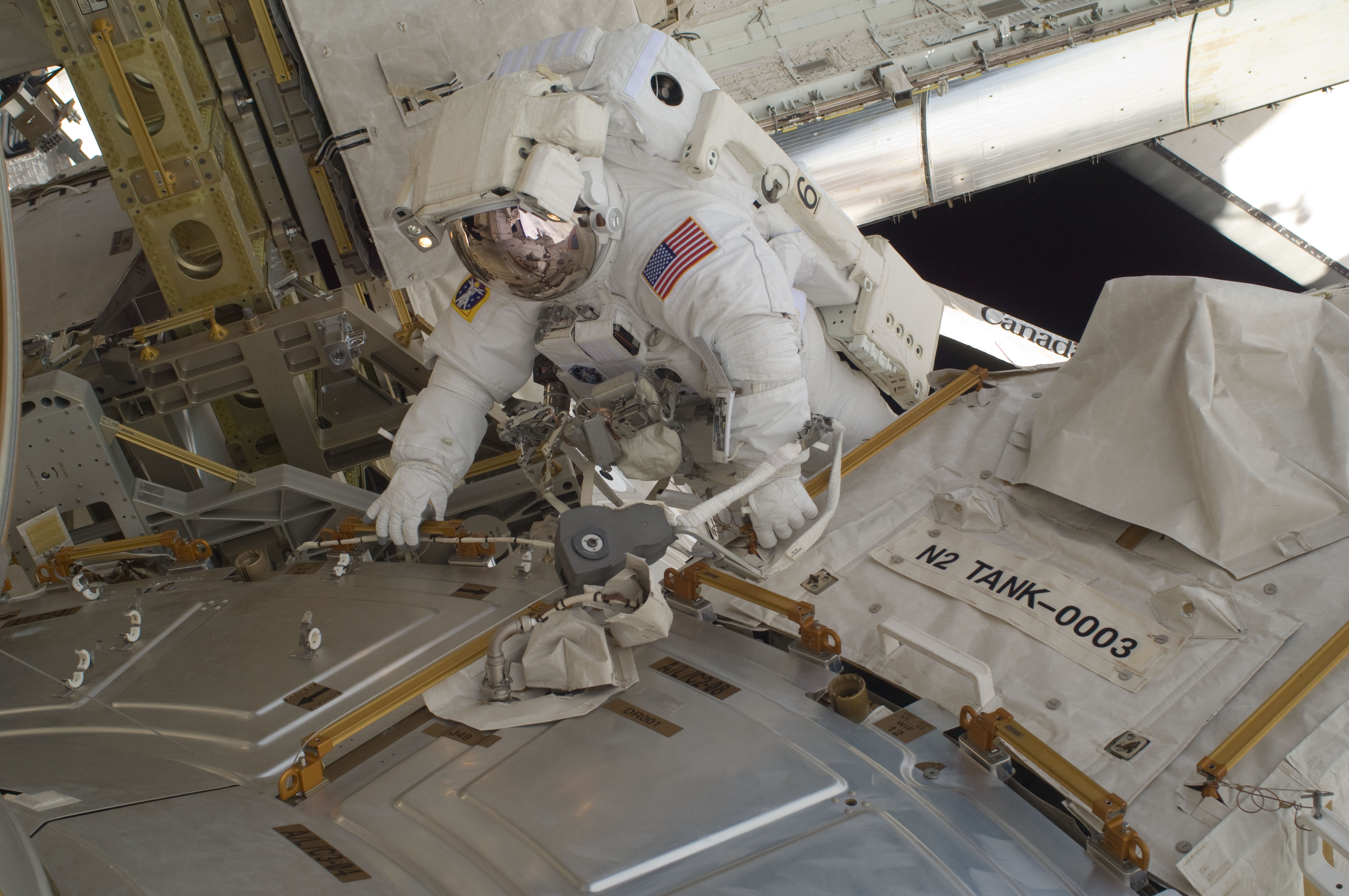 NASA astronaut Nicholas Patrick, STS-130 mission specialist, participates in the mission's first session of extravehicular activity (EVA) as construction and maintenance continue on the International Space Station. During the 6-hour, 32-minute spacewalk, Patrick and astronaut Robert Behnken (out of frame), mission specialist, relocated a temporary platform from the Special Purpose Dexterous Manipulator, or Dextre, to the station's truss structure and installed two handles on the robot. Once Tranquility was structurally mated to Unity, the spacewalkers connected heater and data cables that will integrate the new module with the rest of the station's systems. They also pre-positioned insulation blankets and ammonia hoses that will be used to connect Tranquility to the station's cooling radiators during the mission's second spacewalk.